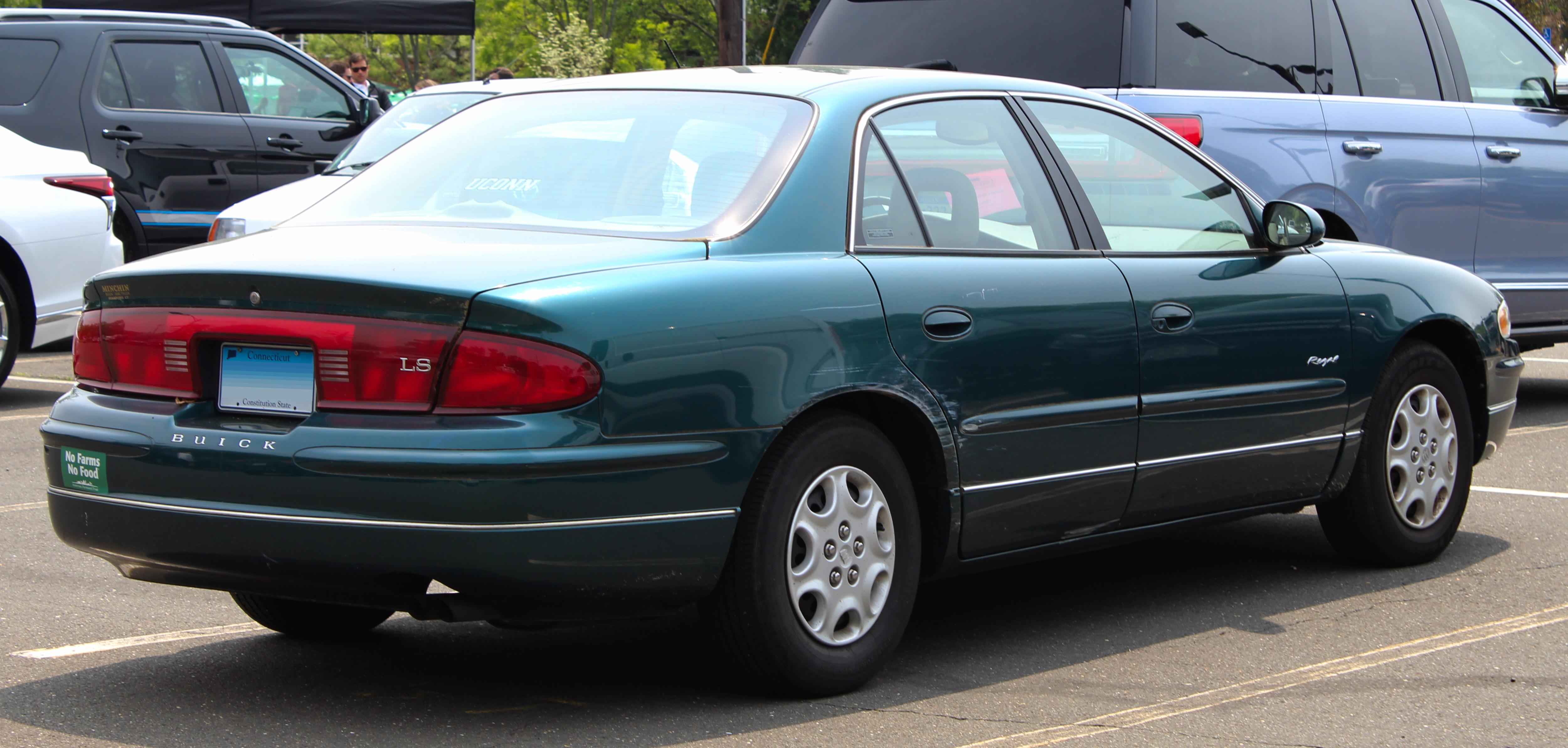 A 1999 Buick Regal LS photographed in Greenwich Concours d'Elégance Hagerty parking lot, Connecticut, USA